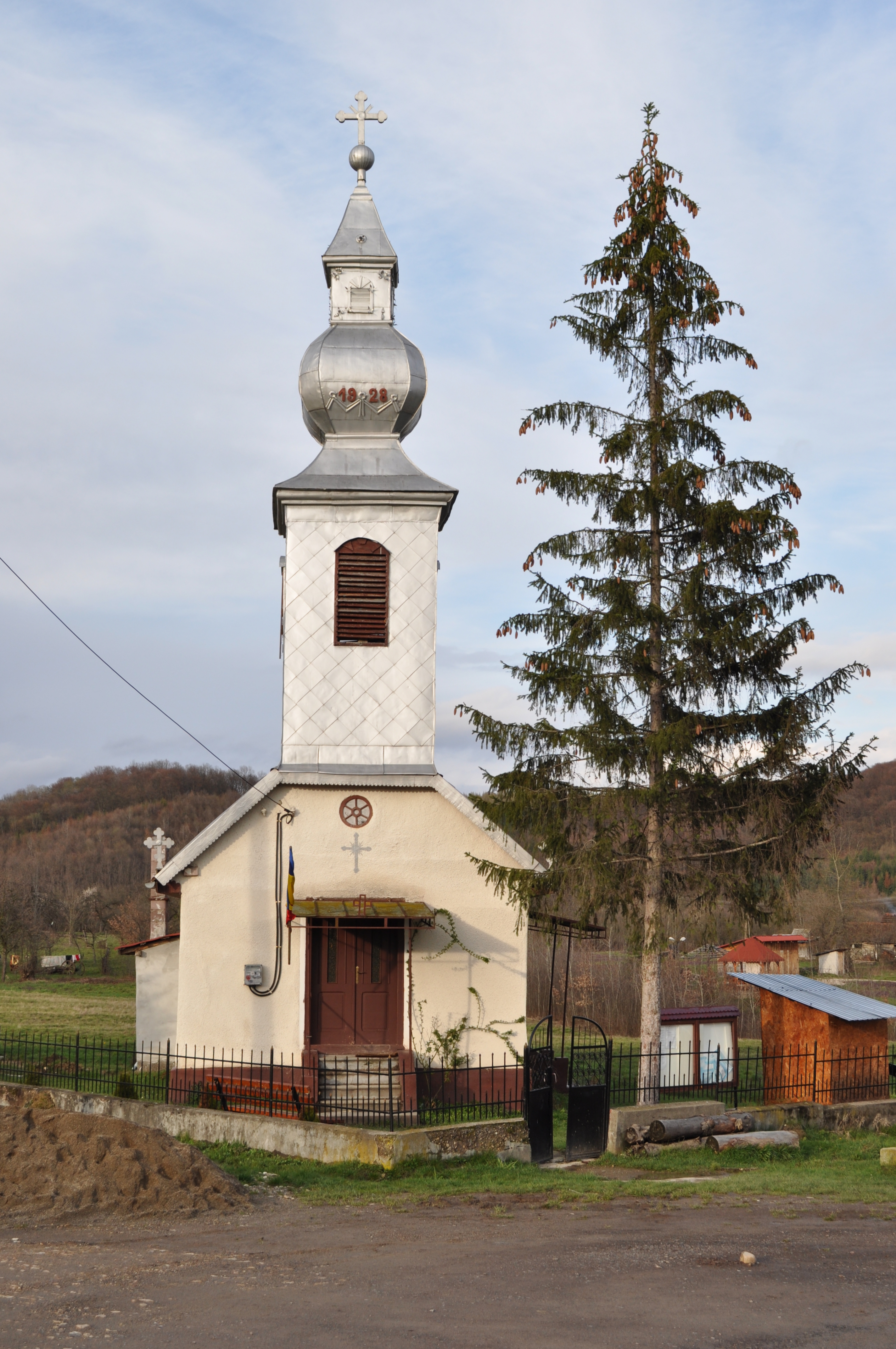 Minead, Arad county, Romania